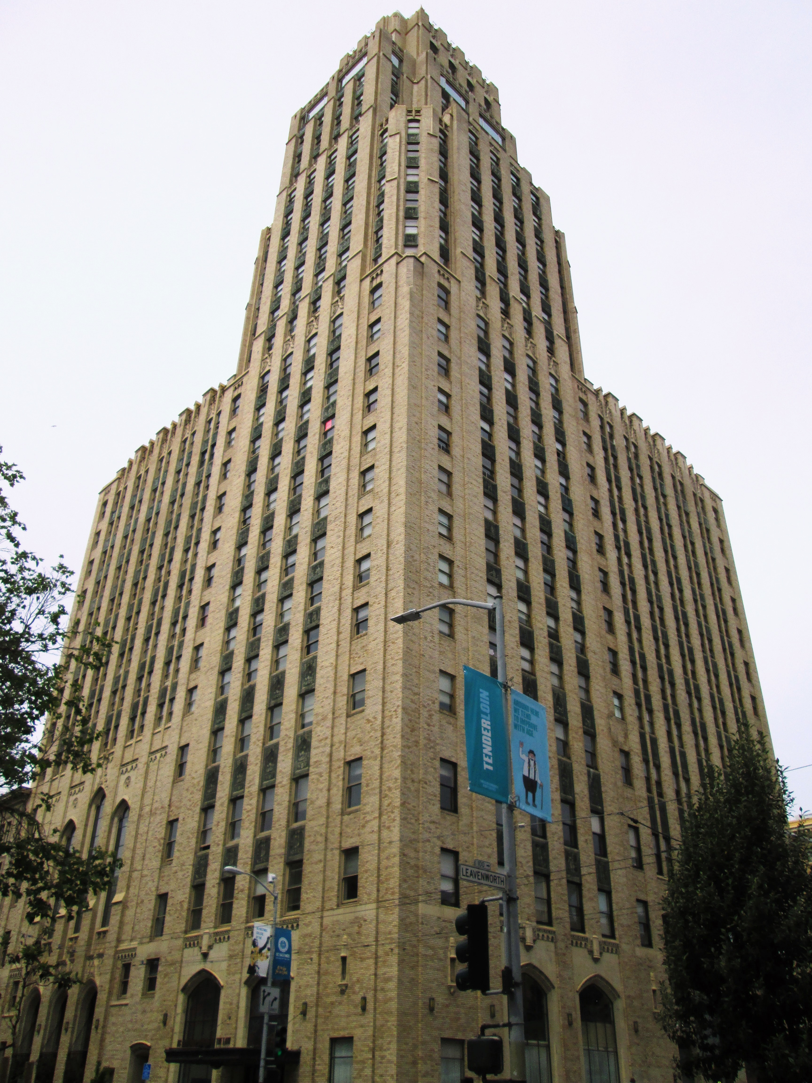 The McAllister Tower at 100 McAllister Street at the corner of Leavenworth Street in the Tenderloin neighborhood of San Francisco, California, was originally designed to be the Temple Methodist Episcopal Church and the William Taylor Hotel, and was designed by Timothy L. Pflueger in the Gothic Revival style. Pflueger was fired and replaced by Lewis P. Hobart, who kept the majority of Pflueger's design, to the extent that Pflueger won a judgement afterwards. The building opened in 1930, but the church left the building in 1936, and the hotel became the Empire Hotel in 1938 after a renovation and refurbishment. During World War II and afterwards the building was bought by the U.S. government and used as offices. These moved in 1959-60 to the newly-built Phillip Burton Federal Building. In 1978, the University of California, Hastings College of the Law bought the building and converted it for use as student housing and offices. It reopened in 1981. From 1990 through 2001, the Great Hall, where the church was once located, housed the performance space of George Coates Performance Works. As of 2017, the Great Hall is unused and in need of renovation.